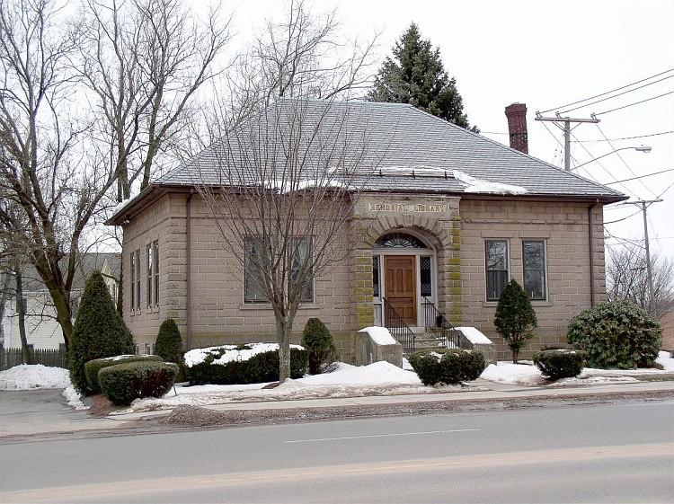 The former Memorial Library building in the historic center of South Windsor, Connecticut; part of the Windsor Farms Historic District.